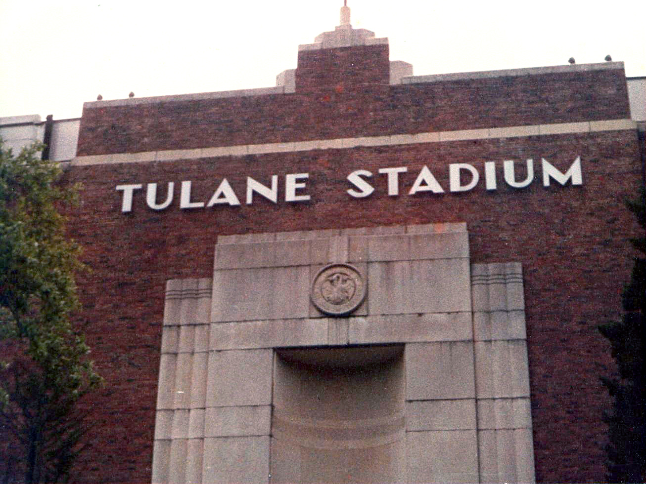 New Orleans: Tulane Stadium, front on Willow Street, not long before it was demolished. Photo by Infrogmation, 1979